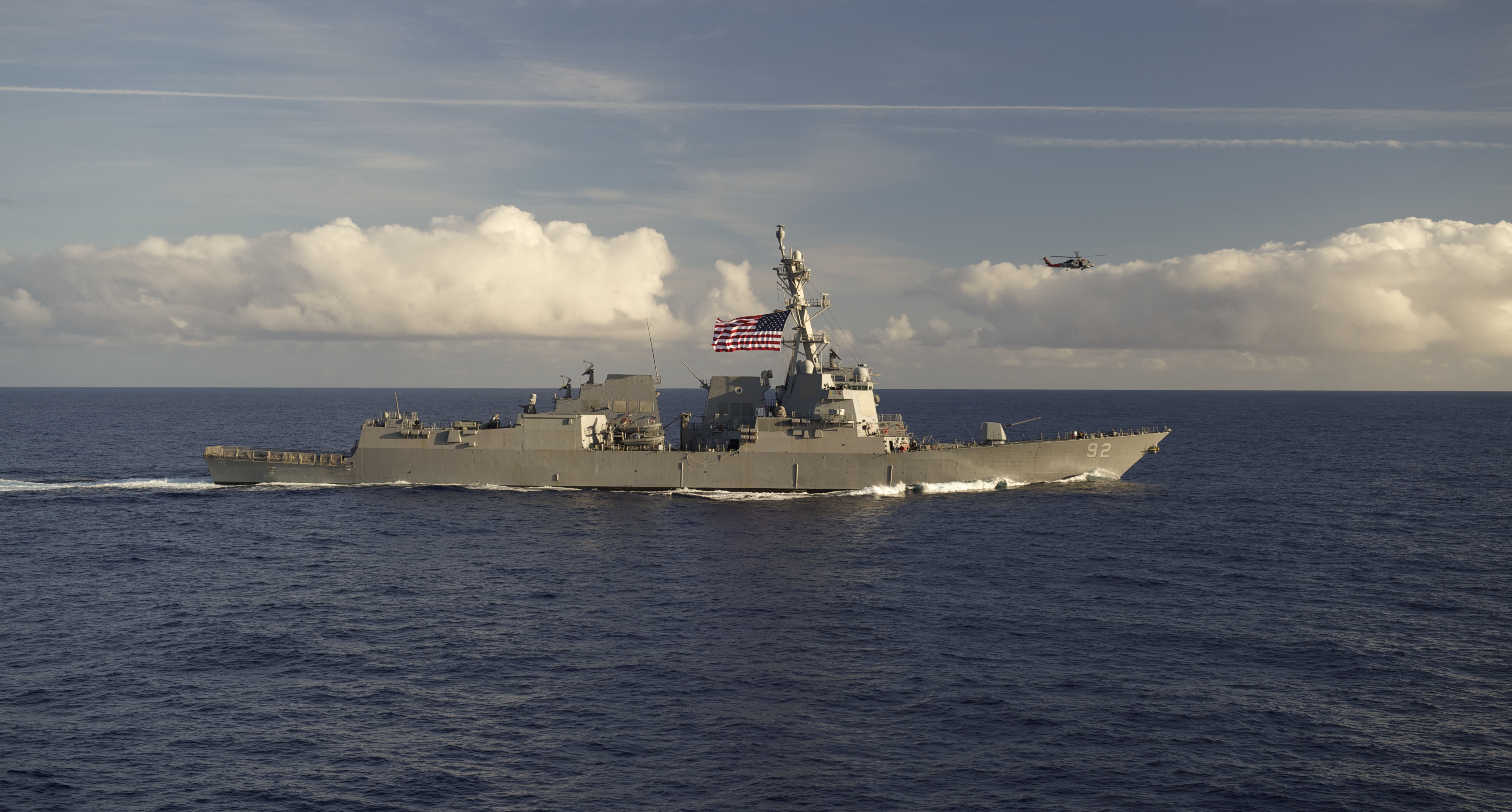 PACIFIC OCEAN (April 20, 2016) – The guided-missile destroyer USS Momsen (DDG 92) transits the Pacific Ocean. Momsen departed its homeport of Everett, Washington for a deployment to the Western Pacific as part of Commander, U.S. 3rd Fleet Pacific Surface Action Group (PAC SAG), April 15. Momsen, along with guided-missile destroyers USS Spruance (DDG 111) and USS Decatur (DDG 73), and embarked “Devil Fish” and “Warbirds” detachments of Helicopter Maritime Strike Squadron (HSM) 49, deployed as part of PAC SAG under Destroyer Squadron (CDS) 31. (U.S. Navy photo by Mass Communication Specialist 3rd Class Gerald Dudley Reynolds/Released)160420-N-QC631-106 Join the conversation: navylive.dodlive.mil